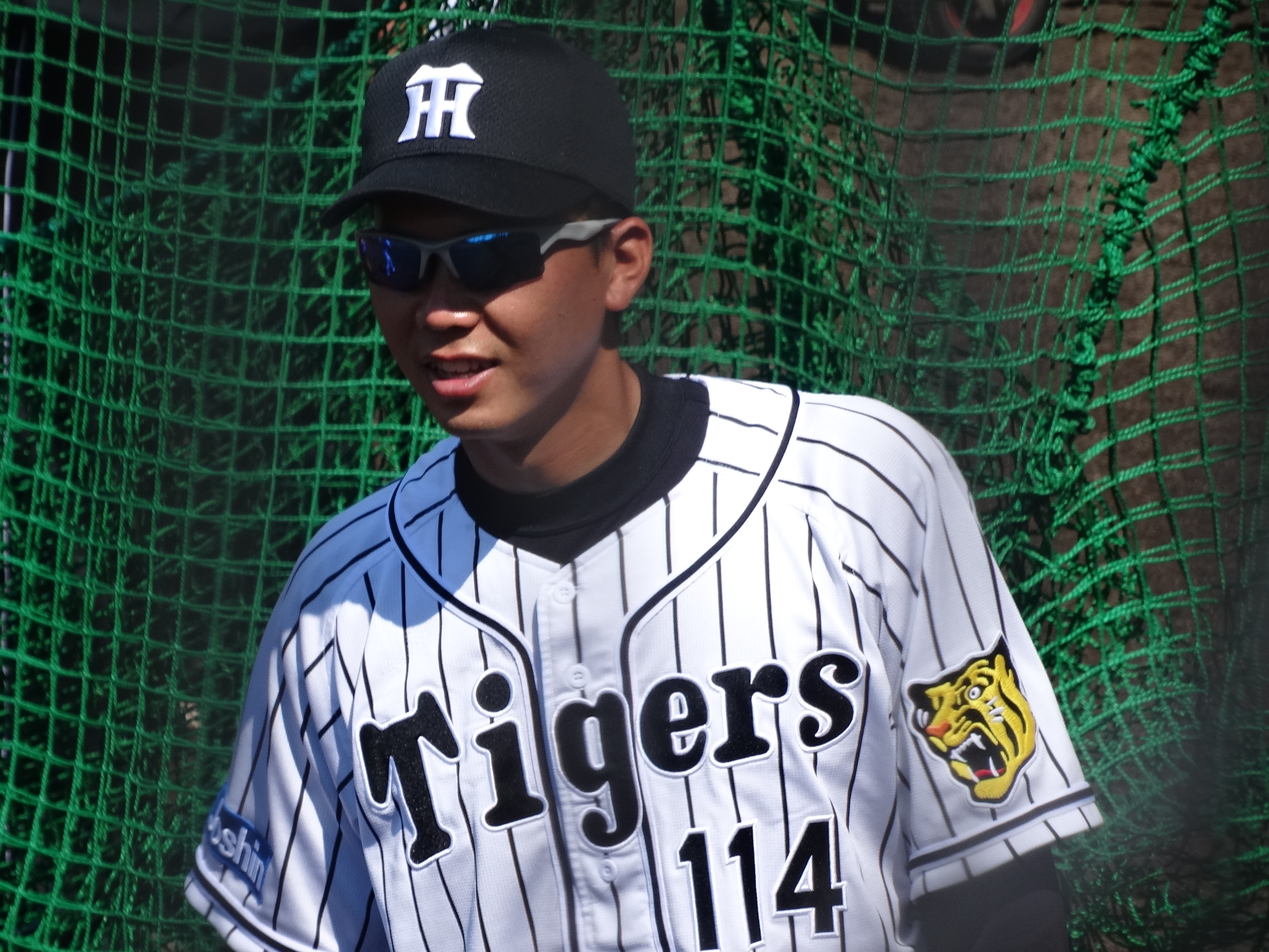 Yusuke Yokokawa, bullpen catcher of the Hanshin Tigers, at Hanshin Naruohama Baseball Ground